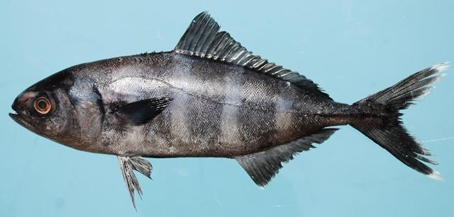 Mangalore, 14 December 2010, 26cm